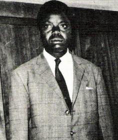 Cropped portrait of Moise Tshombe